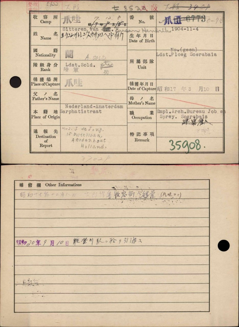 van Sitteren's internment card when he was captured in Java, 1945.